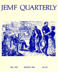 JEMF Quarterly. Vol. 17. Winter 1981. No 64, cover image from Frank Leslie's Illustrated Newspaper 17 May 1879 (Public Domain)